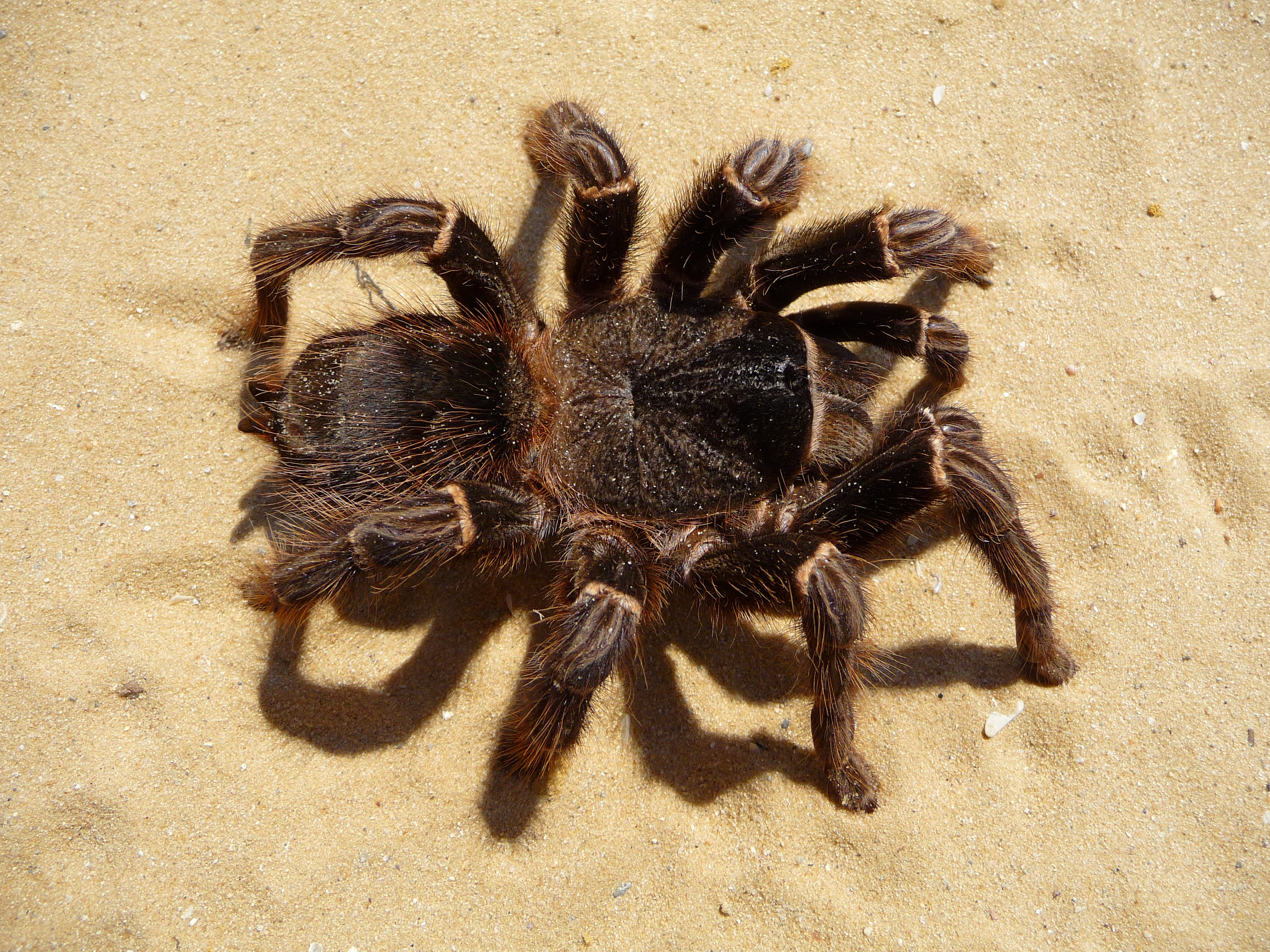 Brazilian salmon pink tarantuala (aslo birdeater) female (Lasiodora parahybana)